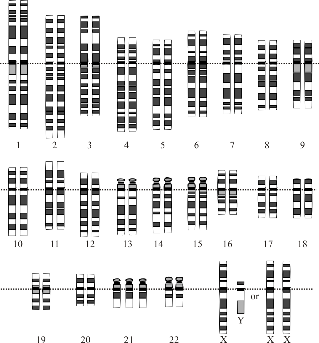 Down Syndrome Karyotype. from en: with same file name